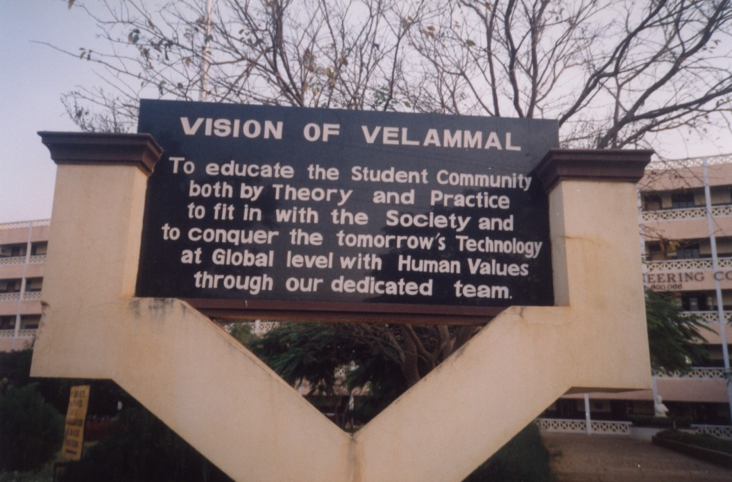 An image, describing the vision of Velammal Engineering College - photographed by me for adding in the article